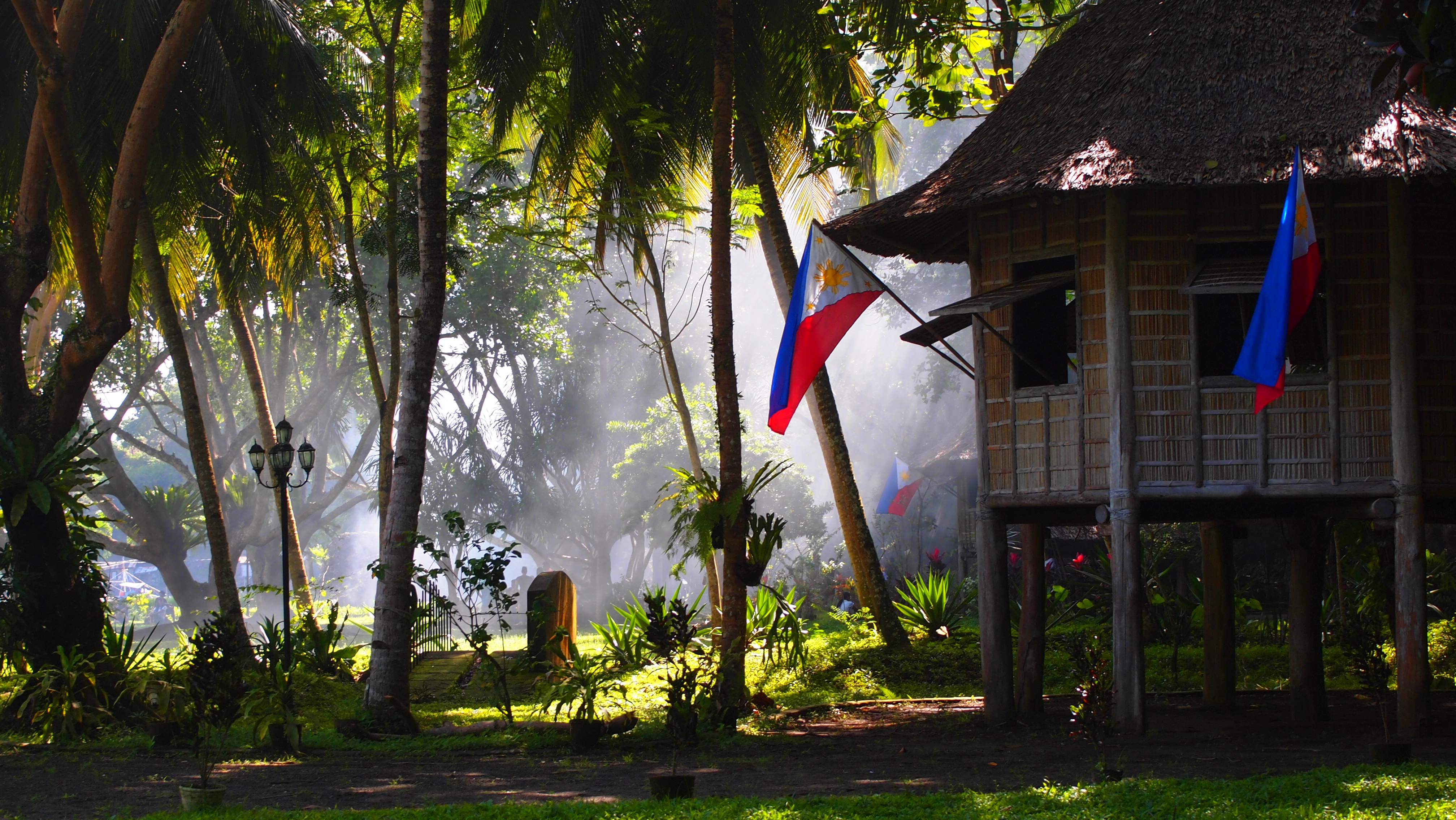 Casa Redonda decked with Philippine flags for the Independence Day celebration, June 2012.